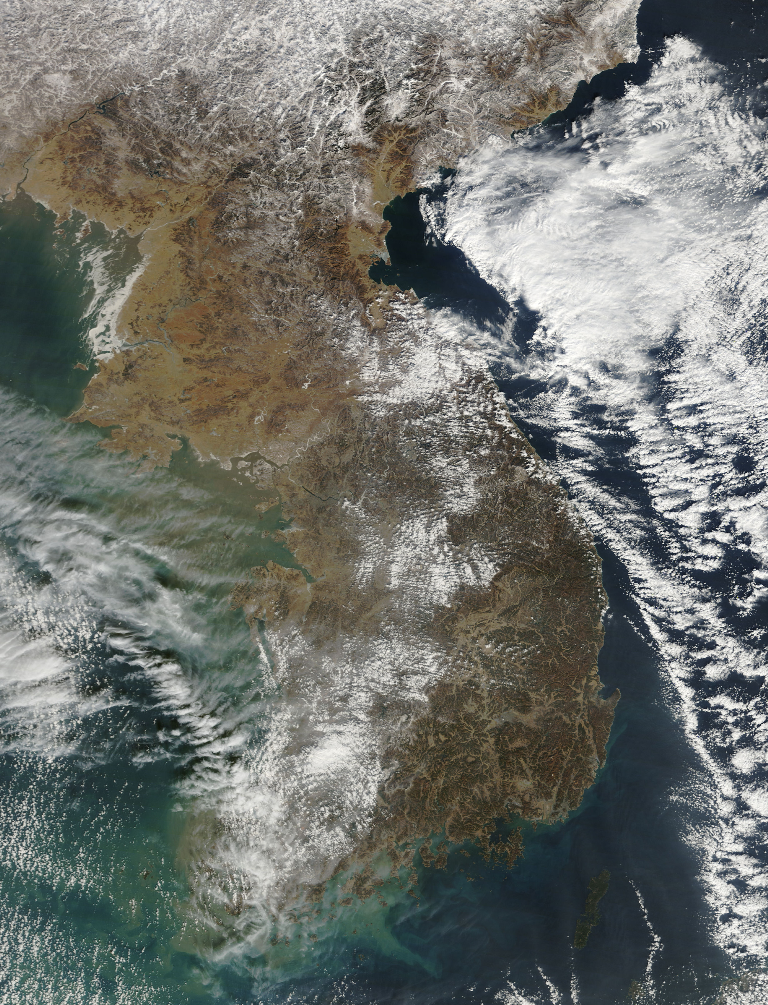 FAS_Korea Subset - Terra 250m True Color image for 2011/040 (02/09/11)